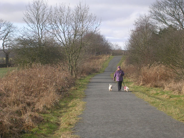 Brandon to Bishop Auckland path, near Brancepeth. The Brandon to Bishop Auckland is one of the many foot- and cycle-paths in County Durham, founded on an old railway. This one forms part of the National Cycle Network, Regional Route 20 (better known as W2W) from Walney to Wear. Like many such paths, it is very popular with dog walkers. The rise in the background is where an old overbridge has been filled in (as happens often in these cases)